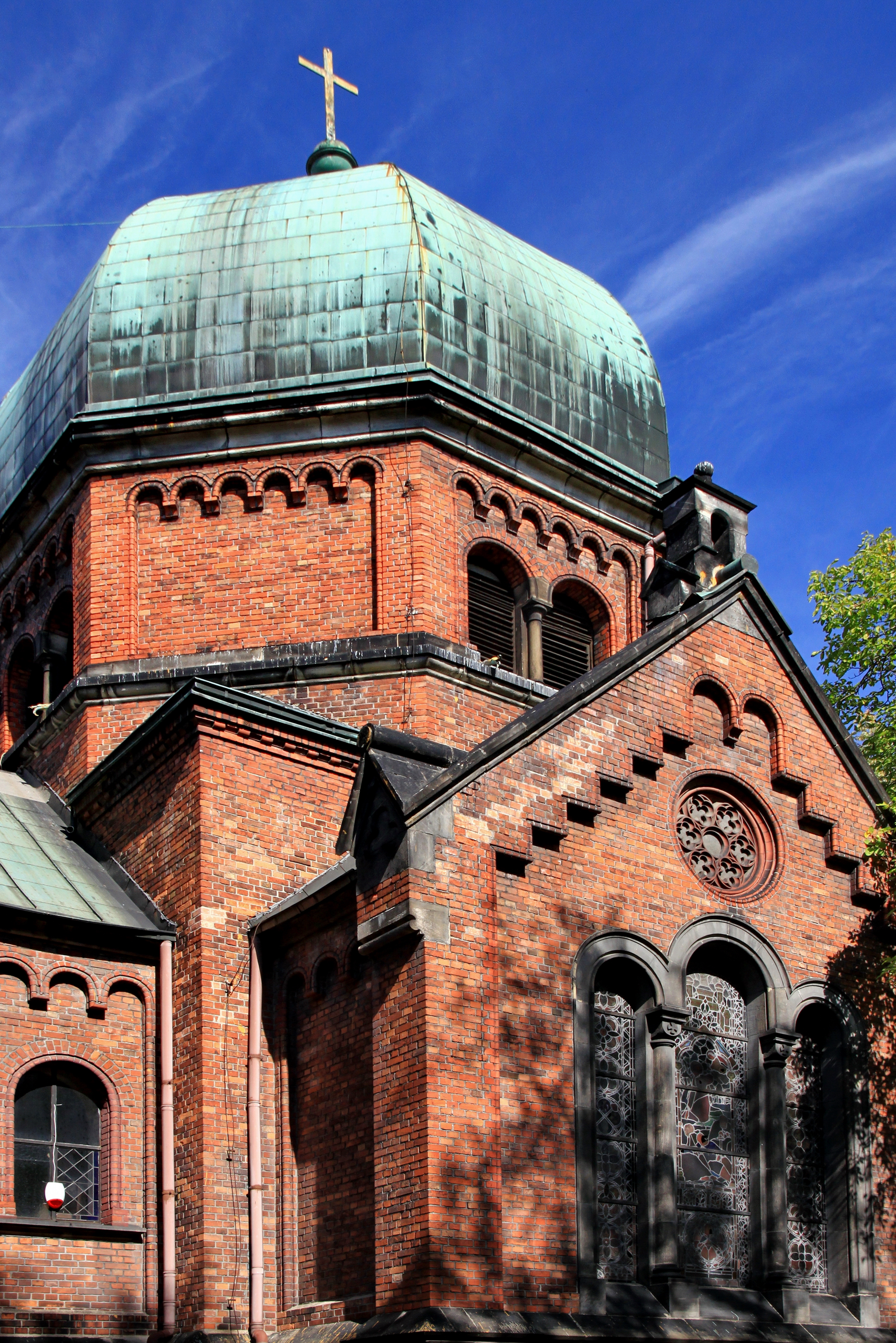 Rybnik, hospital chapel of St. Julius, build in 1894